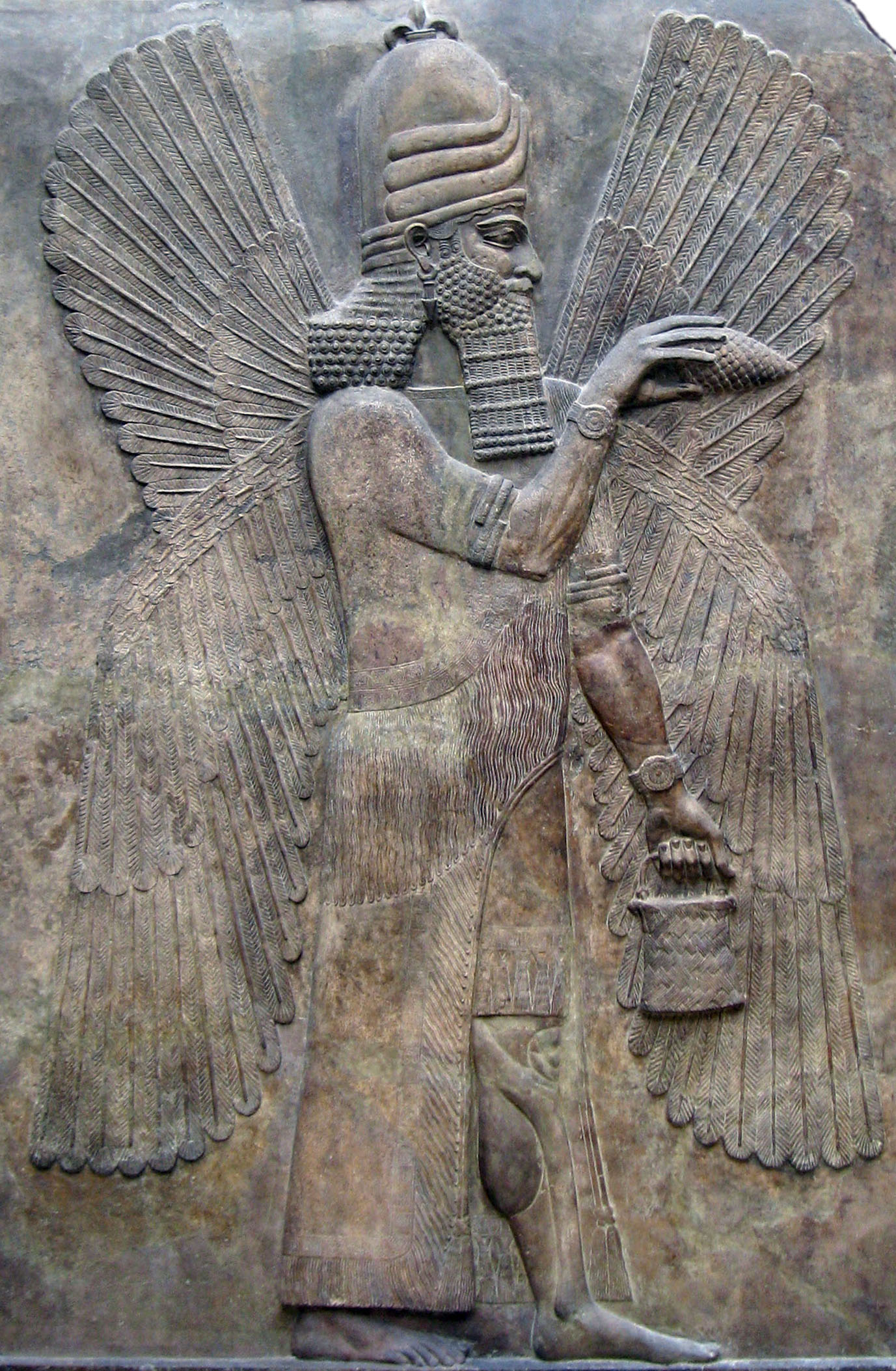 Apadana winged man. Iraq's heritage in Musée du Louvre